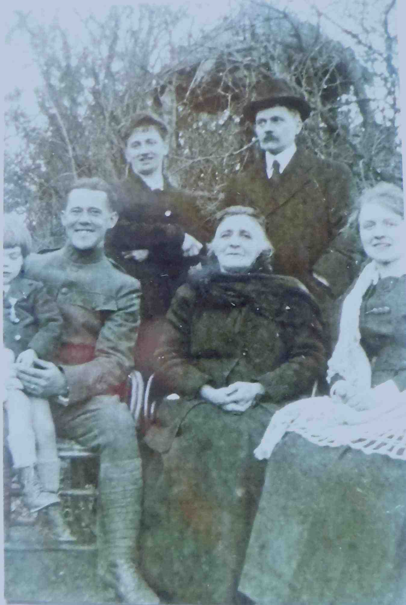 Malègue and his family's people